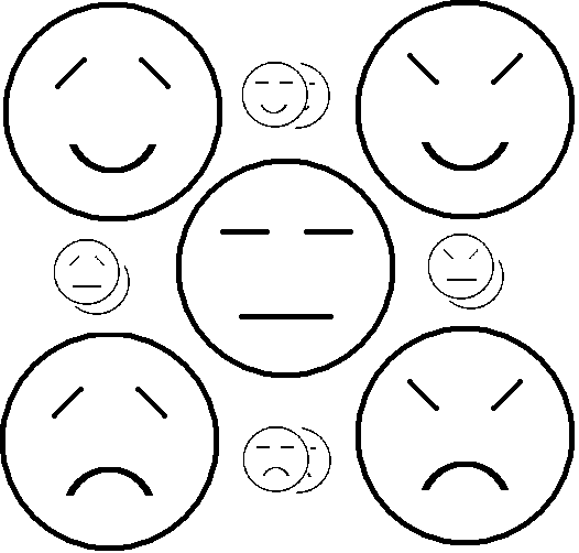 By Eric B The addition of a fifth temperament to the four temperaments drastically changes the old "four faces" (See Image) used to represent the ancient temperaments. The face in the upper left, that in the old system represented the Phlegmatic now represents the fifth temperament. The new face in the middle represents Phlegmatic. The Phlegmatic blends lie in pairs between the adjacent four outer temperaments. With this new method of identifying the temperaments, the faces can now be read as follows: the eyes represent "expressed behavior", (´`="introvert"; `´="extrovert"; --="indifferent") and the mouth represents "wanted behavior". ((="introvert"; )="extrovert